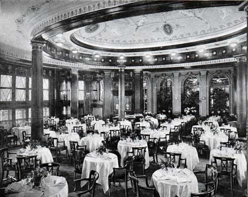 The Ritz-Carlton Room of the SS Leviathan